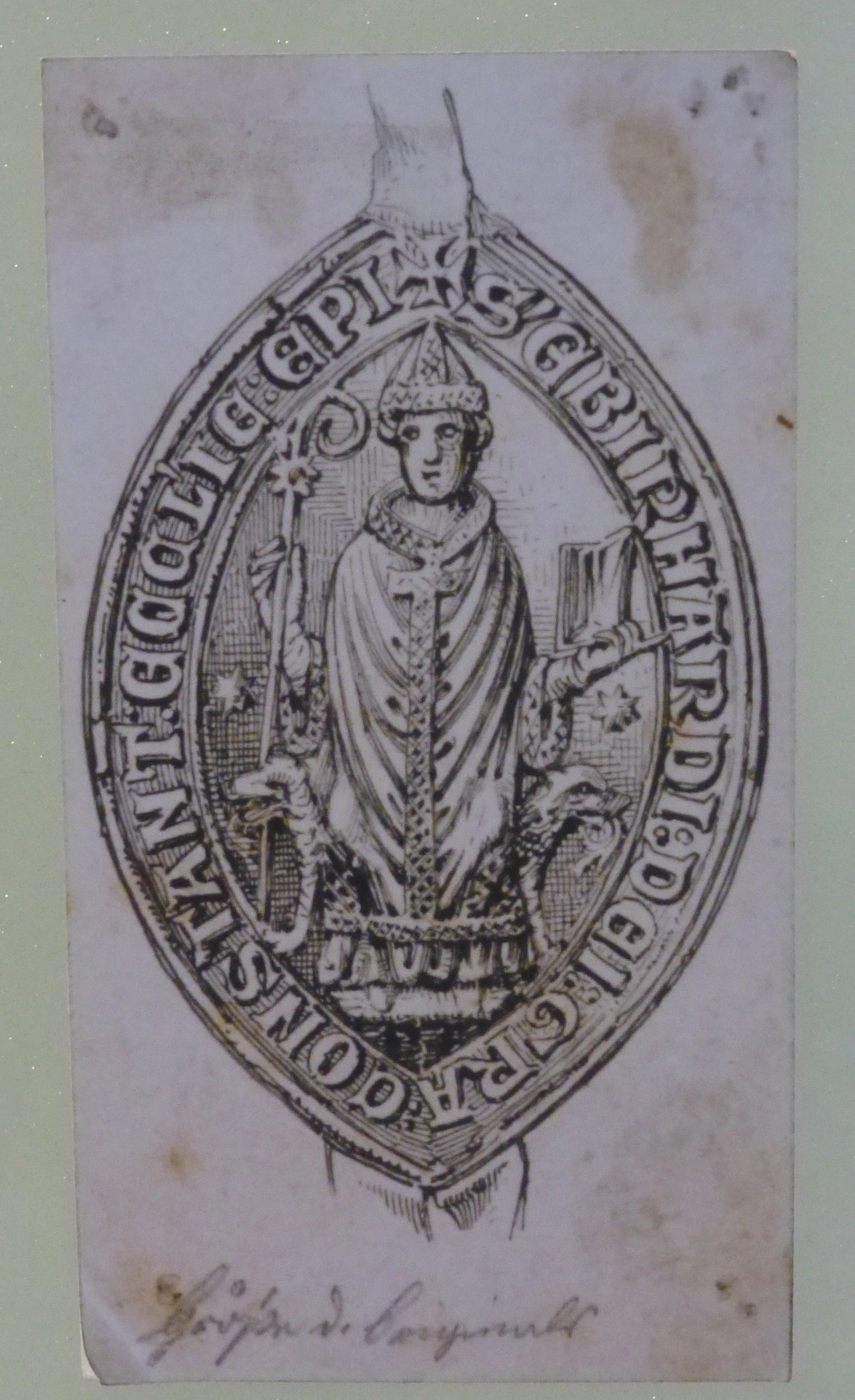 Seal of Eberhard, bishop of Constance